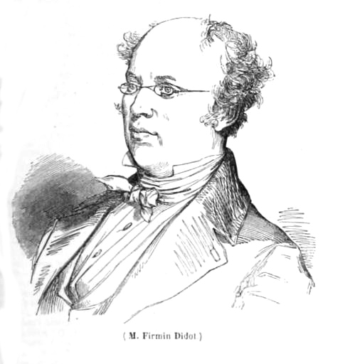 Firmin Didot (French: [fiʁmɛ̃ dido]; 14 April 1764 – 24 April 1836)